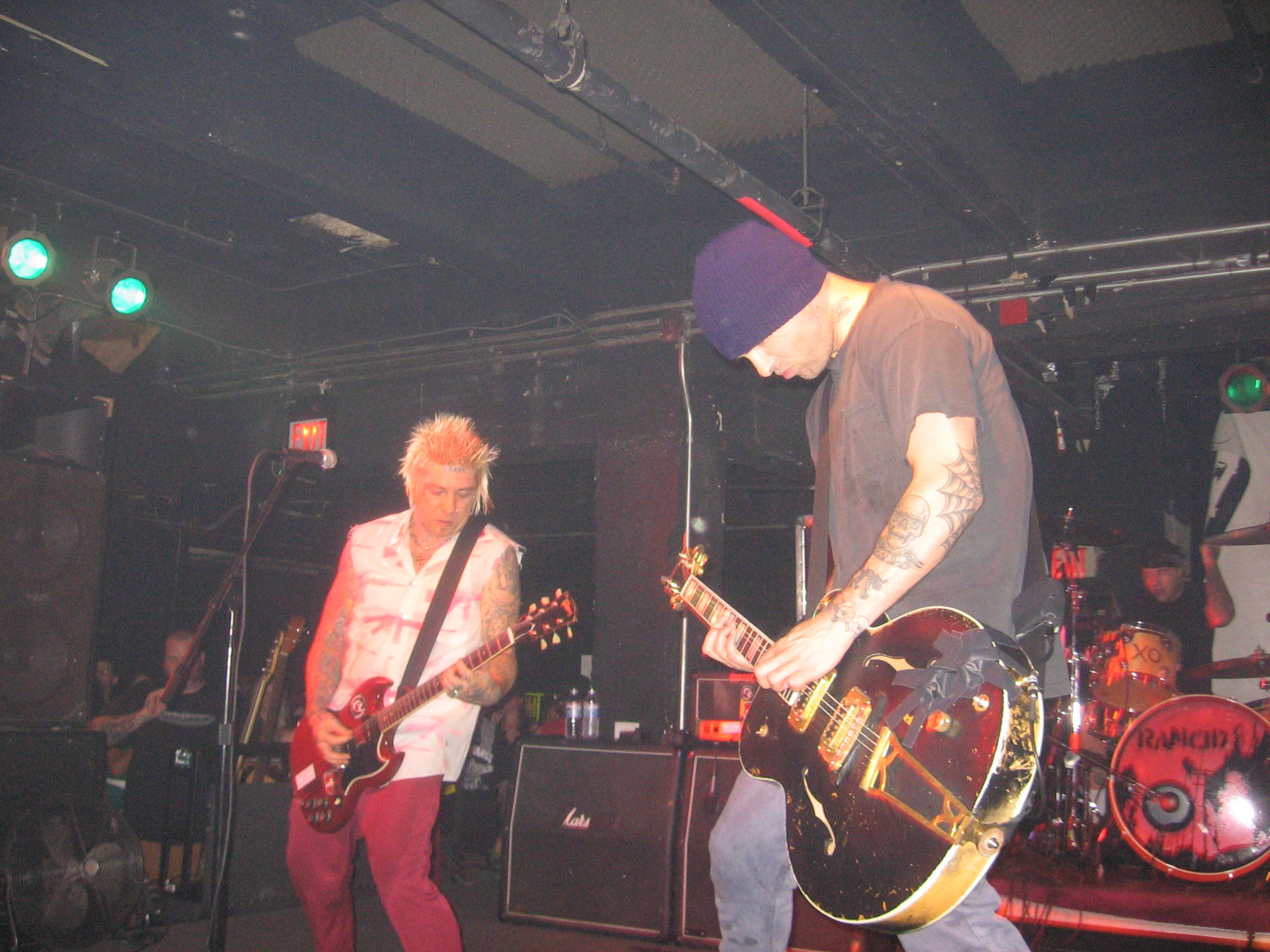 Personal photo taken at August 17, 2006 Rancid concert.